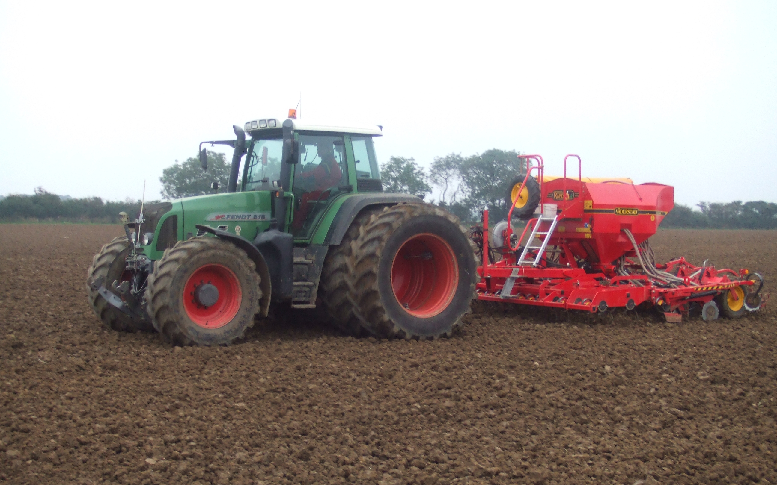 Drilling with a Fendt 818 Vario tractor and a Väderstad Rapid pneumatic seed drill in east Yorkshire, autumn 2006.